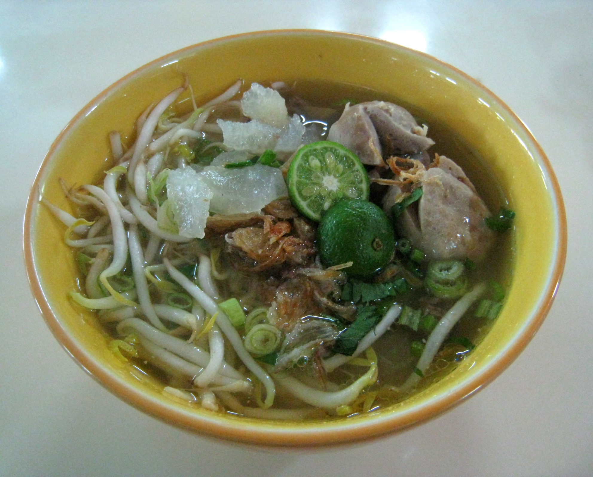 Mie Kocok (lit: "shaked noodle"), a popular delicacy from Bandung, West Java. It is consists of noodle, beansprouts, cow's tendons and cartilage, bakso beef meatballs, leeks, fried shallots, and lime in beef stock soup.